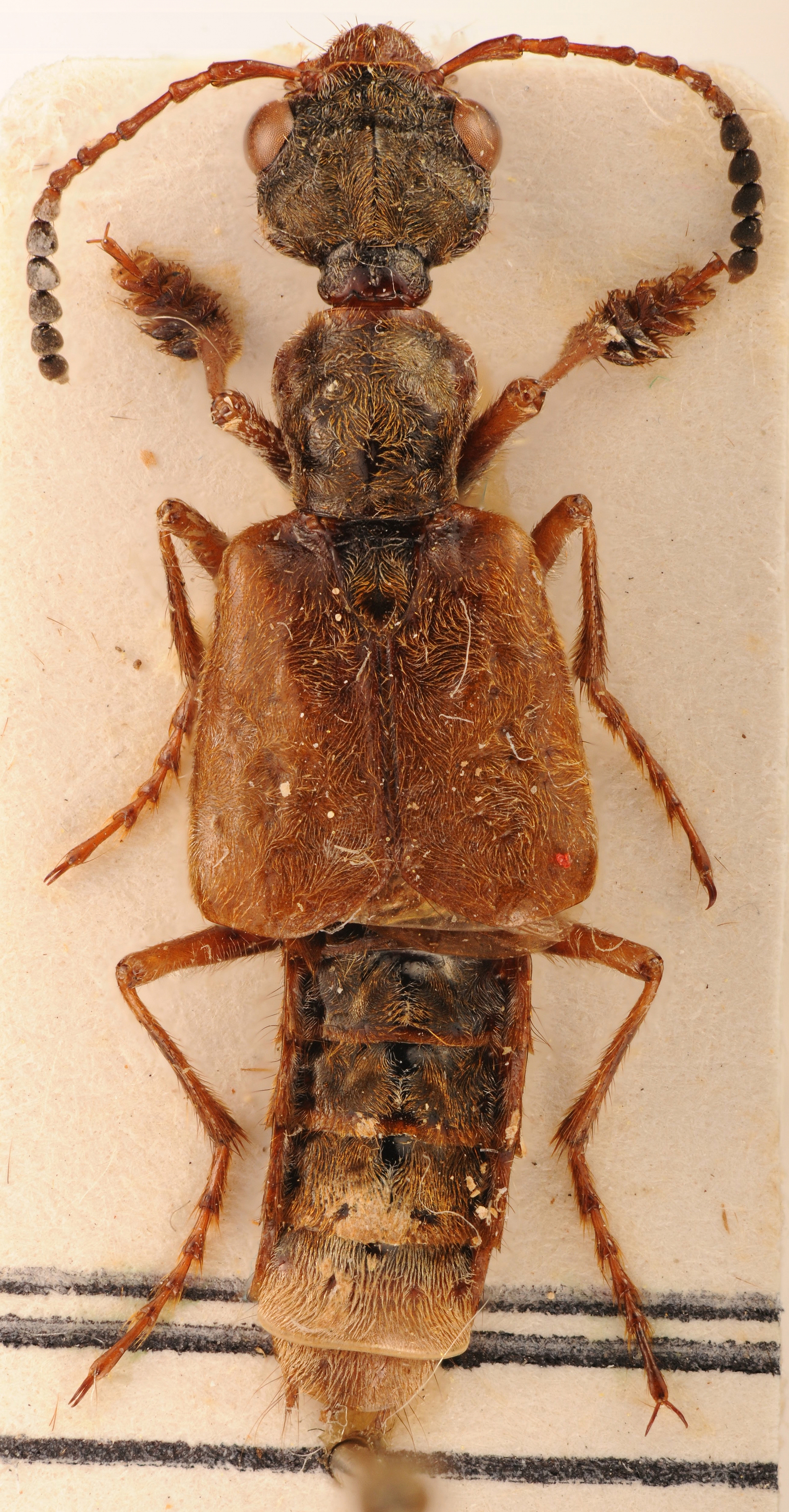 Holotype of Eucibdelus cariniceps SCHEERPELTZ, 1976 in Zoologische Staatssammlung Munich (ZSM)